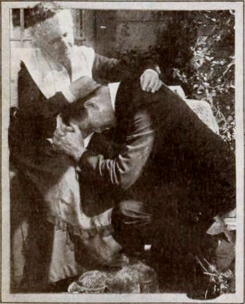 Still from the American drama film Mother o' Mine (1917) with Ruby Lafayette and Rupert Julian, on page 16 of the September 15, 1917 Exhibitors Herald.